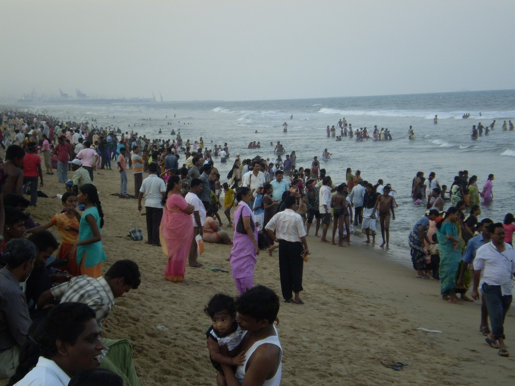 Santhome beach in Chennai